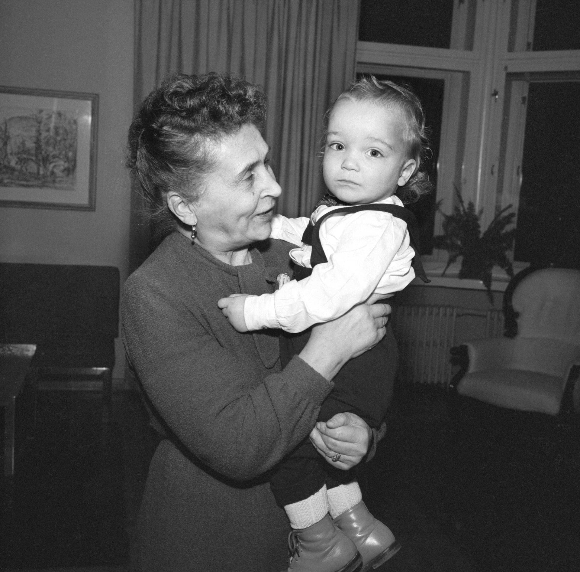 Photograph of the First Lady of Finland Sylvi Kekkonen with her grandson Timo.